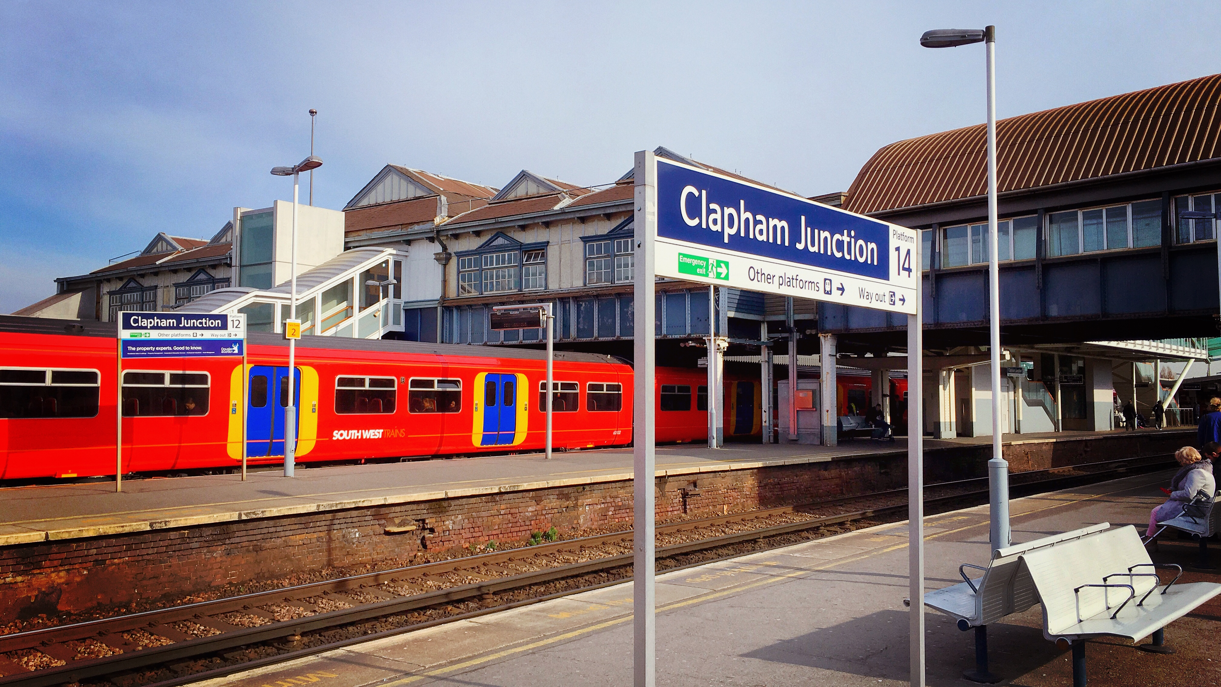 Clapham Junction Station, platforms in 2016